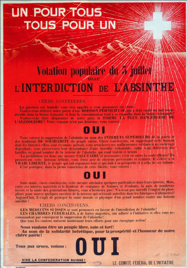 Advertisement for swiss votation of 1905 calling for prohibition of absinthe